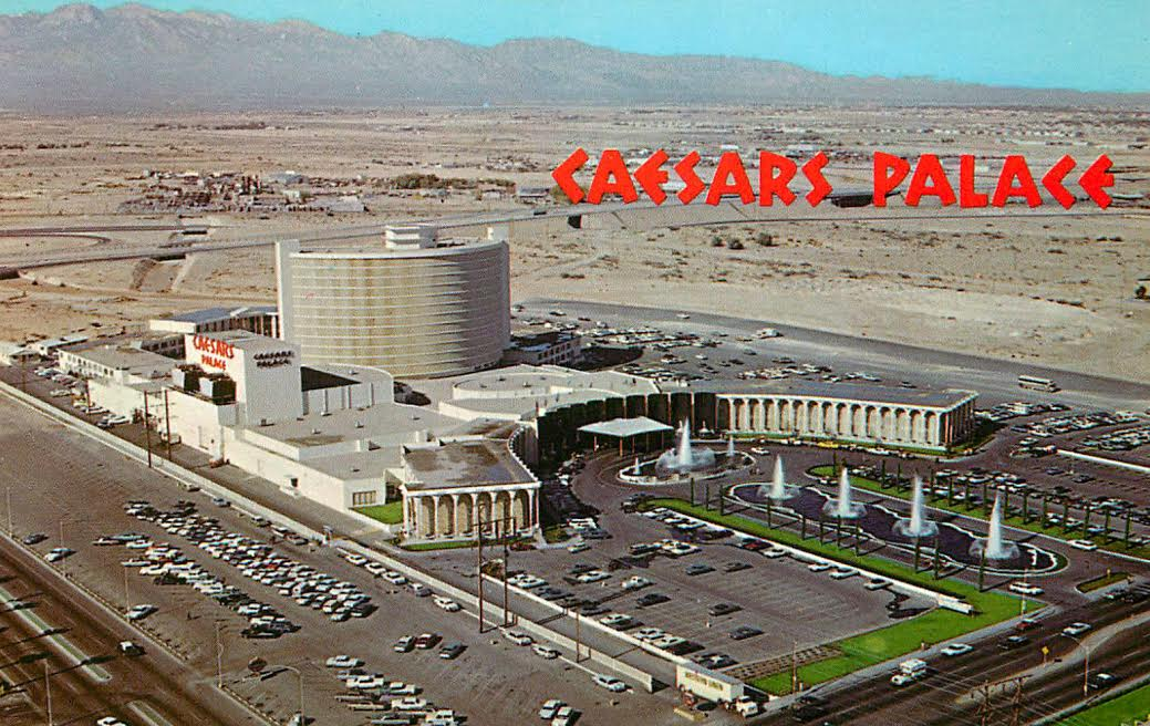 Photo of Caesar’s Palace Hotel and Casino, Las Vegas